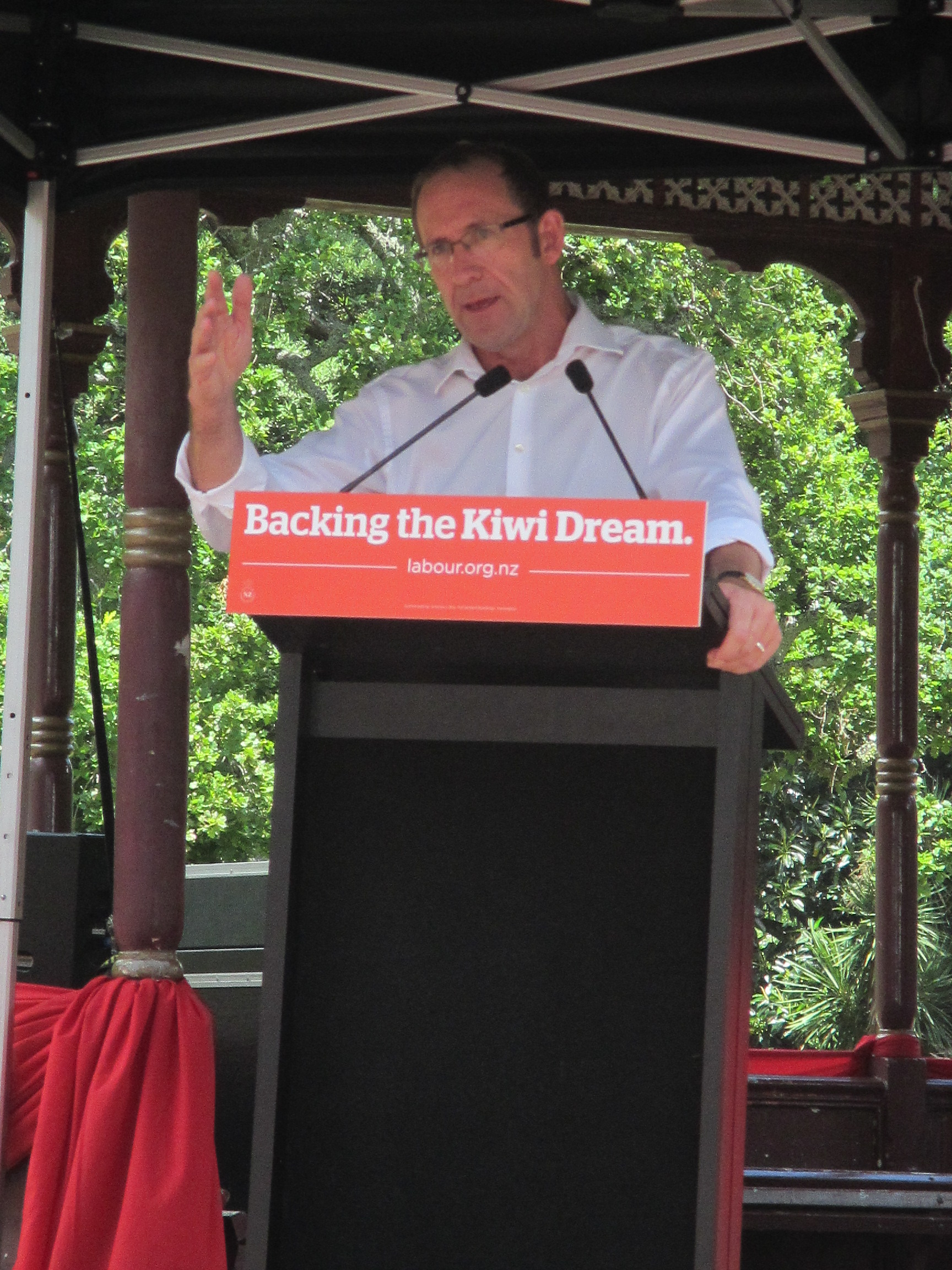 Andrew Little, Leader of the Labour Party in New Zealand, delivers his State of the Nation Speech on 31 January 2016. The speech was given at an outdoor picnic / rally in Albert Park, Auckland.